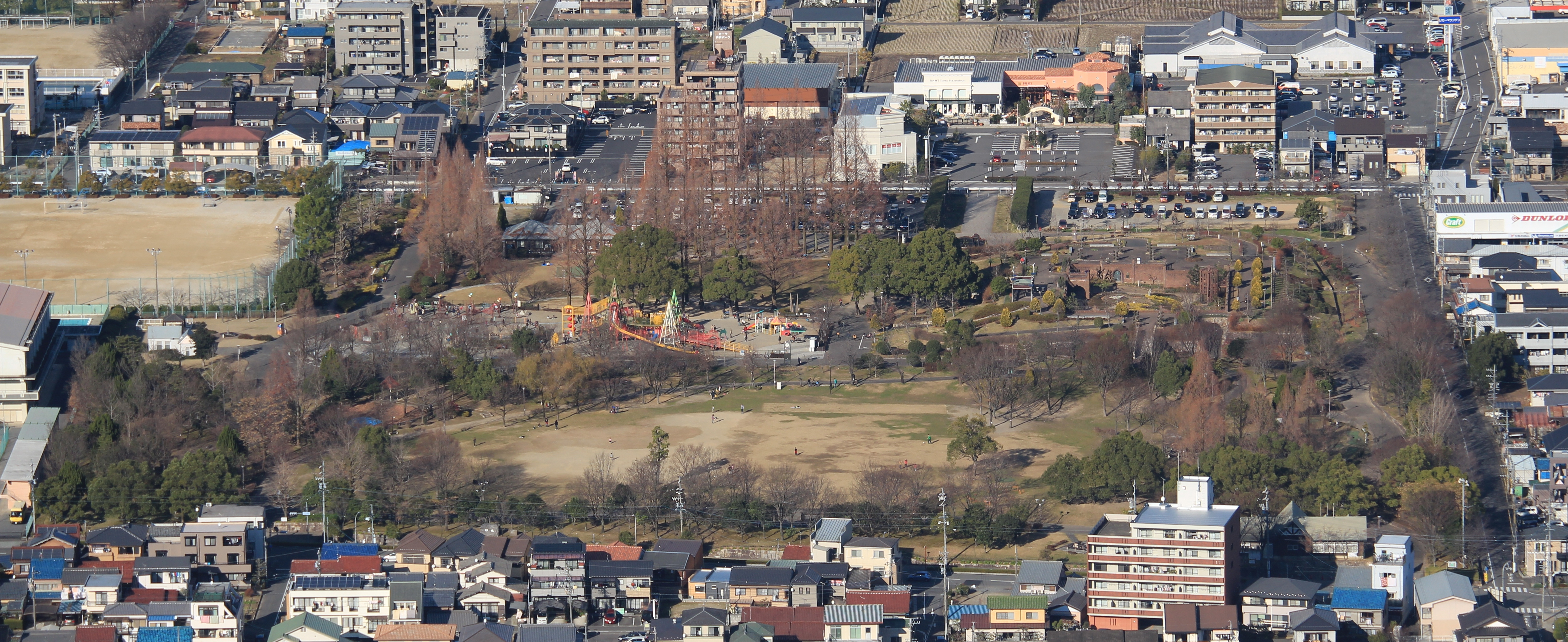 Nagara Park seen from Mount Kinka in Gifu, Gifu prefecture, Japan.